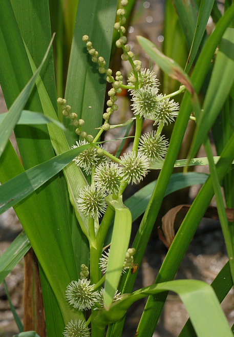 Sparganium erectum, Oberreifenberg, Taunus, Germany